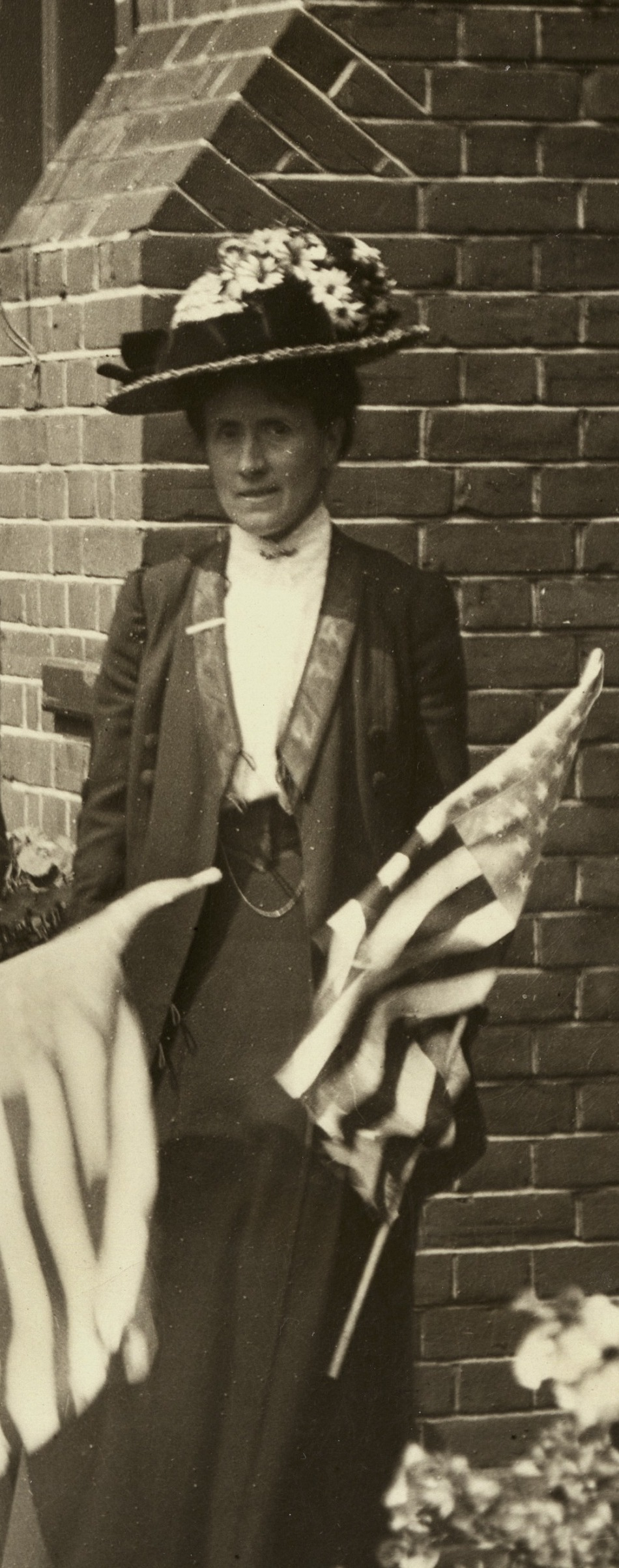 7JCC/O/02/077 Photograph, printed, paper, monochrome, a group of five women holding American flags; printed caption on reverse 'The United States of America will be well represented in the procession of Suffragettes which is to take place on Saturday. Our picture shows the American ladies who will carry the American flag and colours of the movement. Reading from left to right they are: Miss J Twells, Miss E[ugenie] Freeman (organiser of the American movement for Women's Suffrage), Miss Maud Roosevelt (niece of President Roosevelt), Professor LJ Martin of the Stanford University, California, and Miss Ada Wright', also 'Copyright World's Graphic Press Limited, 36-38 Whitefriars Street, Fleet Street, London'